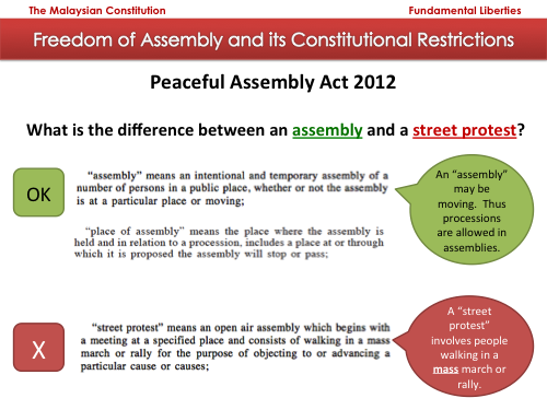 An outline of the types of assemblies permitted under the Peaceful Assembly Act 2012 and those that are prohibited